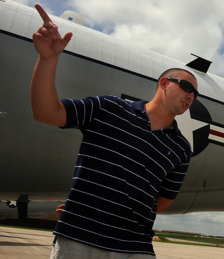 OFFUTT AIR FORCE BASE Neb.,-- Pitcher Matt Harvey (left) and Equipment Manager Nate Warbrough (right) talk with Capt. Sean McCarthy with the 343rd Reconnaissance Squadron as they toured an RC-135V/W Rivet Joint, a reconnaissance platform, located on the parking ramp here as part of a base tour where members of the Tar heels got an inside look at the mission of the 55th Wing, 15 June. The Tar Heels baseball team is competing in the NCAA College World Series hosted at Omaha's Rosenblatt Stadium June 13-23/24. U.S. Air Force Photo by Josh Plueger